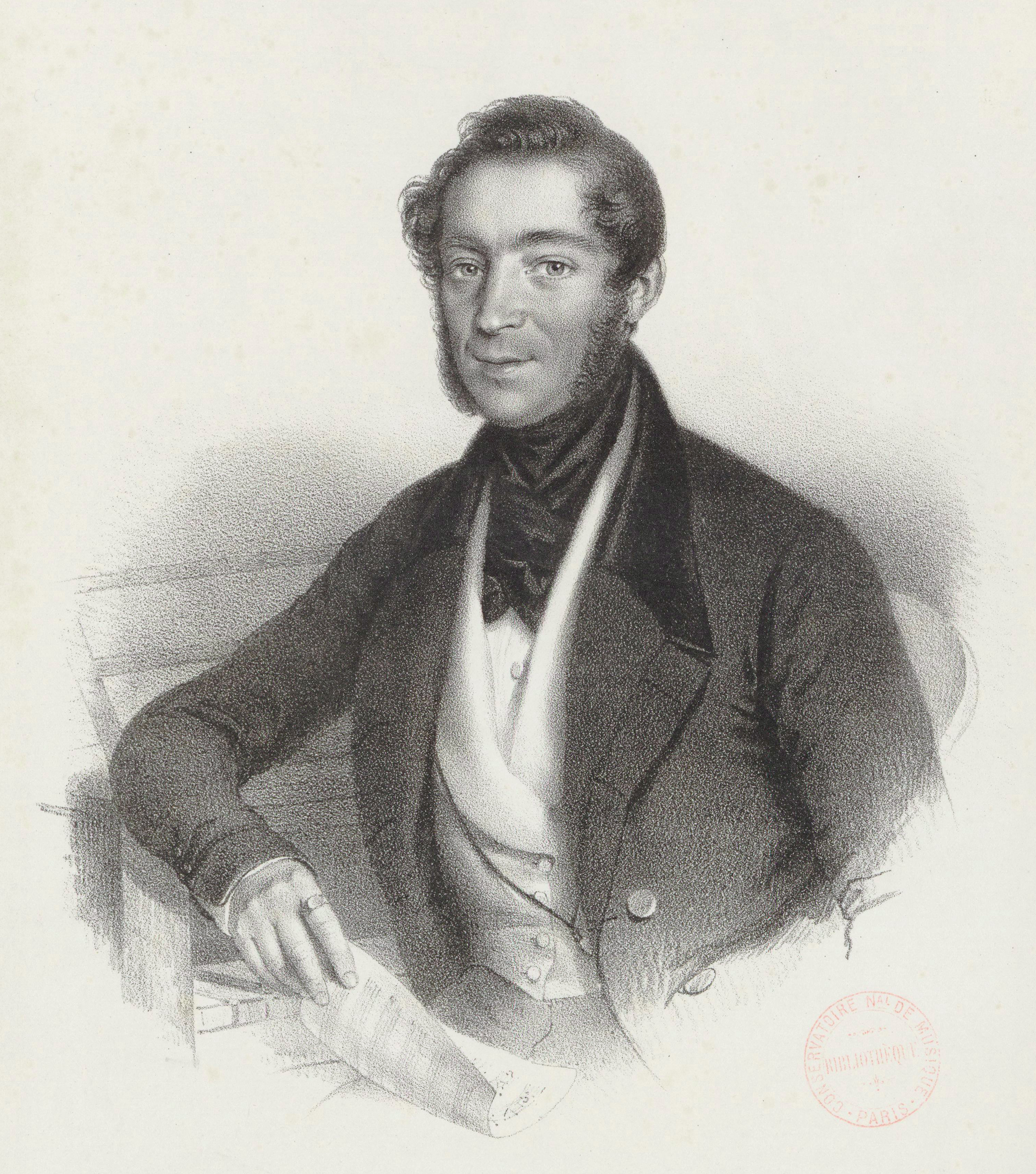 Depicted person: Václav Jindřich Veit